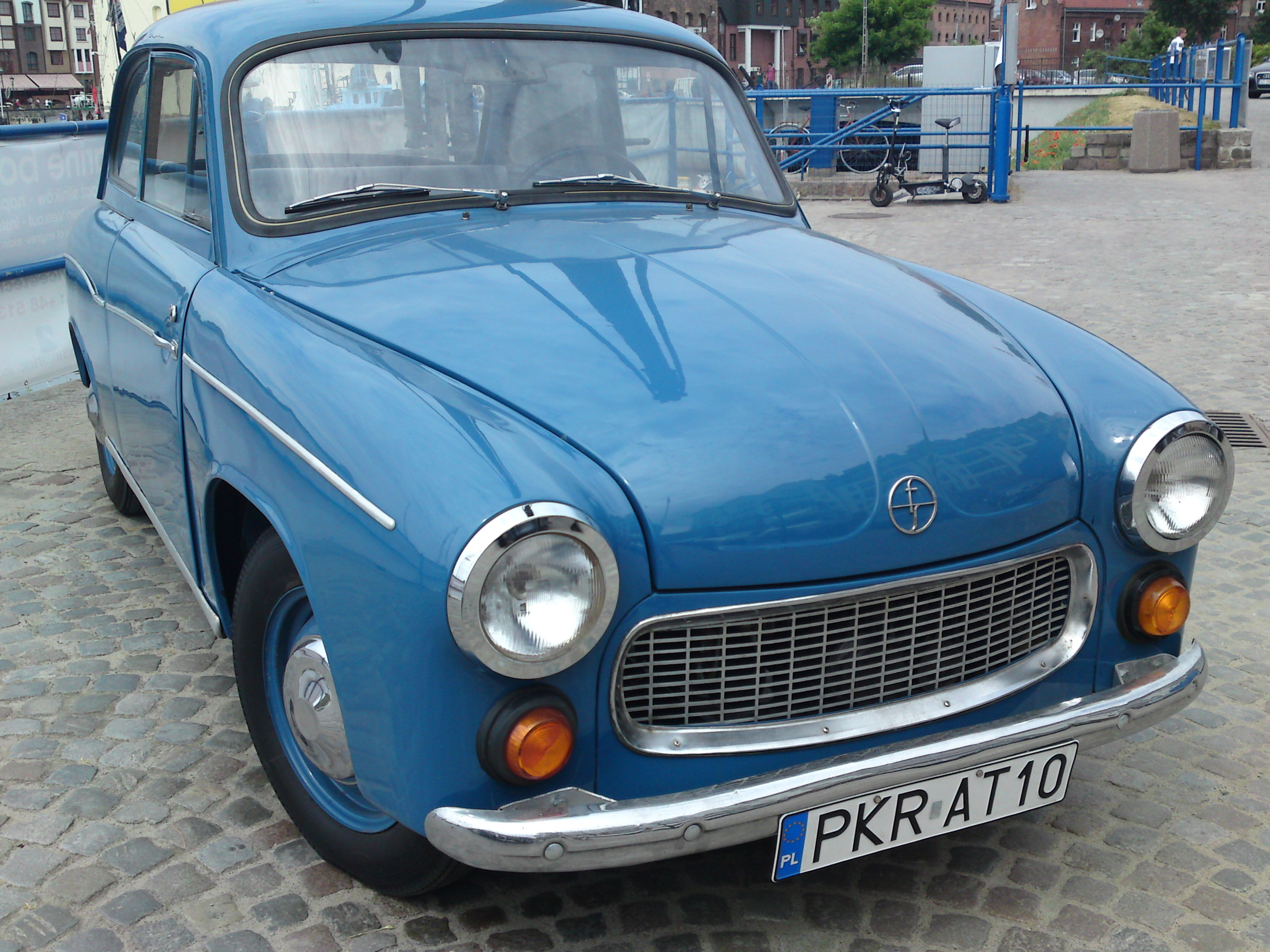 Blue FSO Syrena 104 car in Gdańsk, Poland.